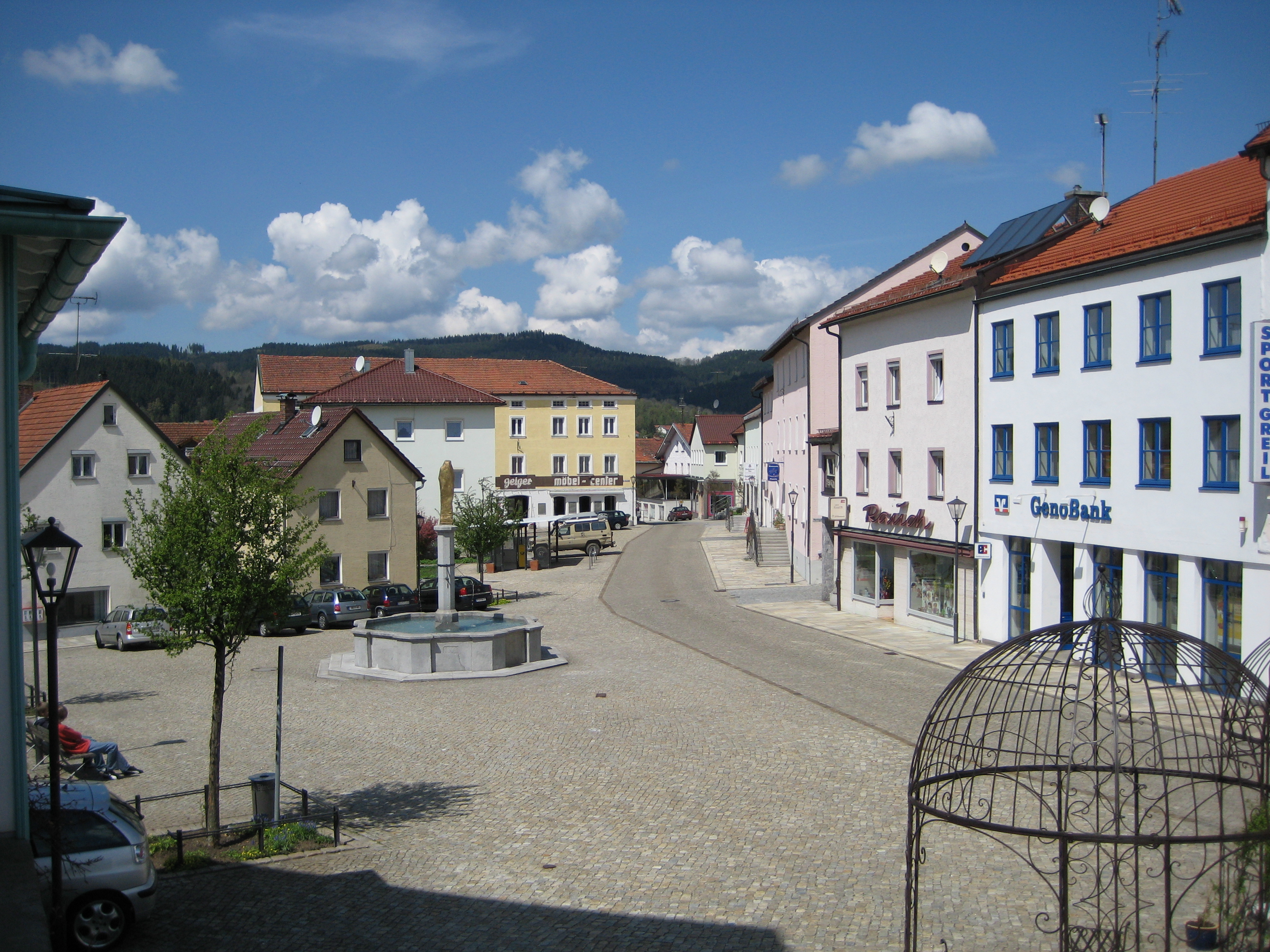 Town center of Ruhmannsfelden, Lower Bavaria